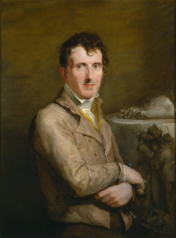 Hayter met the Italian sculptor in Rome, where this portrait was painted in 1817, while he was travelling in Italy under the patronage of the Duke of Bedford.